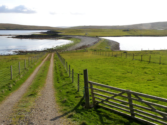 Ayre of Galtagarth Track down to the Ayre of Galtagarth and the Ness of Galtagarth beyond.